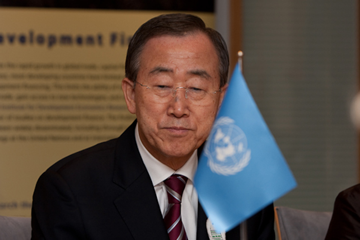 Ban Ki-Moon, Secretary General, United Nations Executive Office of the Secretary-General EOSG